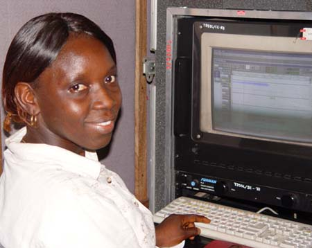 Isastu Mansaray who plays Safie in the Sierra Leonean radio soap opera Atunda Ayenda as well as assisting to produce the show. She is also an radio programme editor.